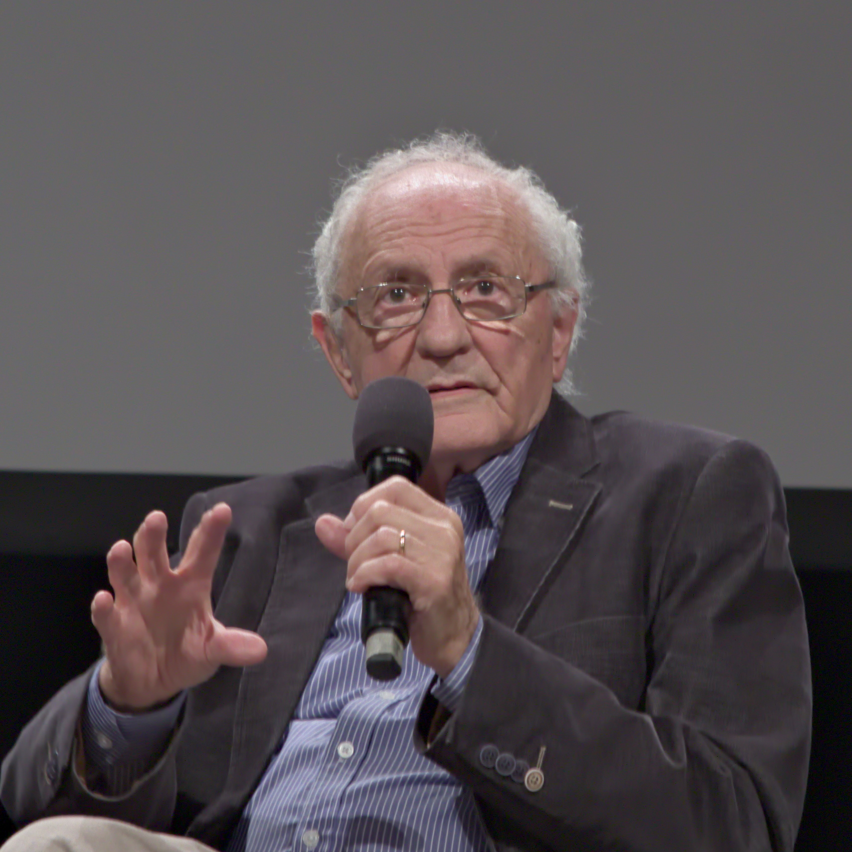 Zeev Sternhell in Berlin (2016)